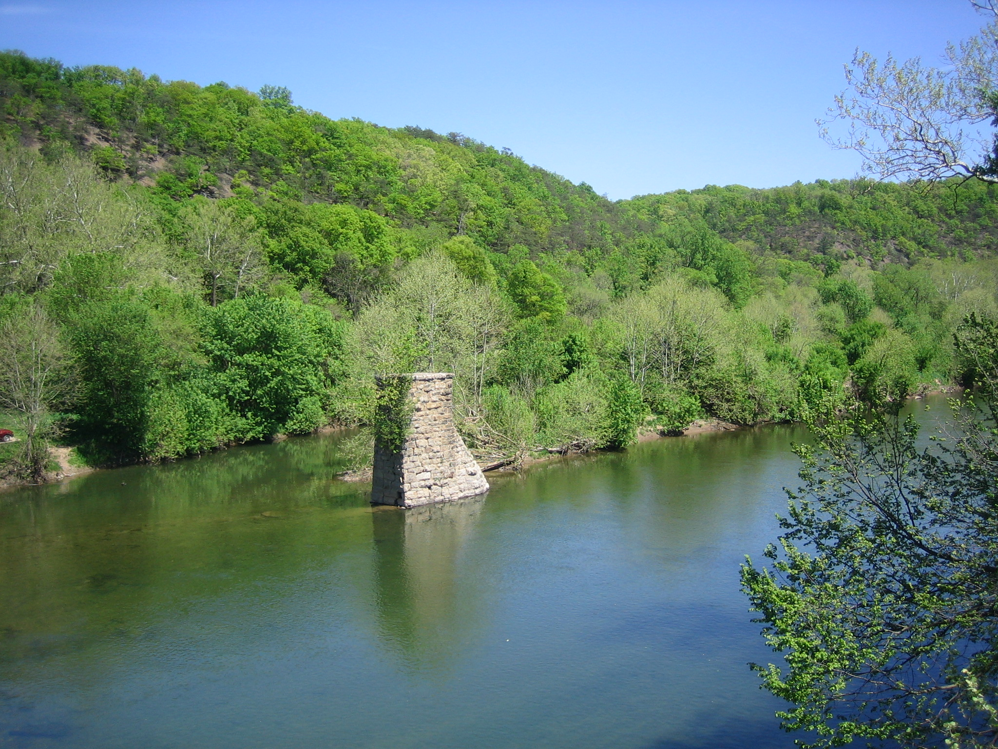 The South Branch Potomac River from the Springfield Pike (County Route 3) Bridge at Millesons Mill, West Virginia, United States.